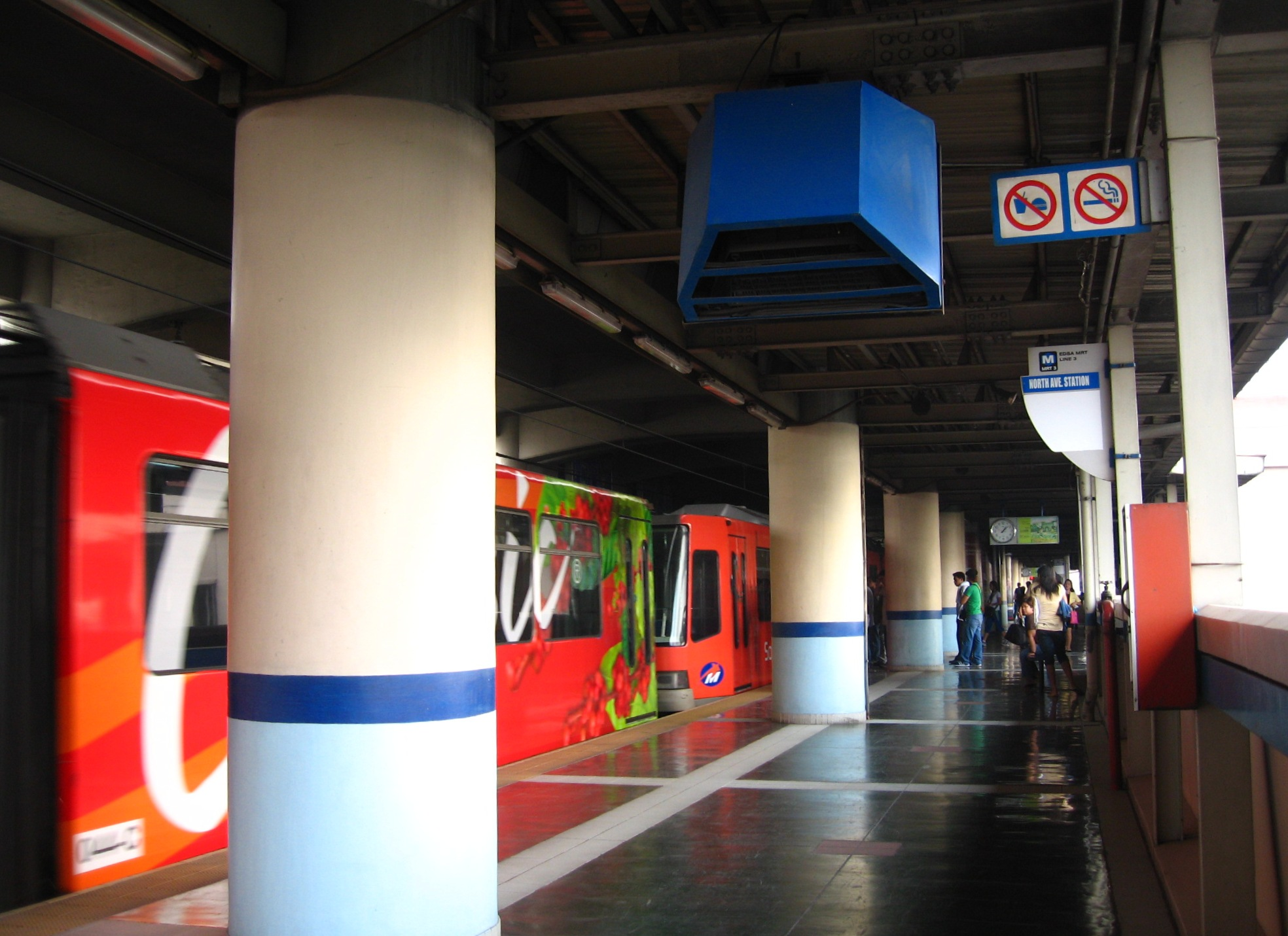 MRT-3 North Avenue Station Platform Area. Self-taken.